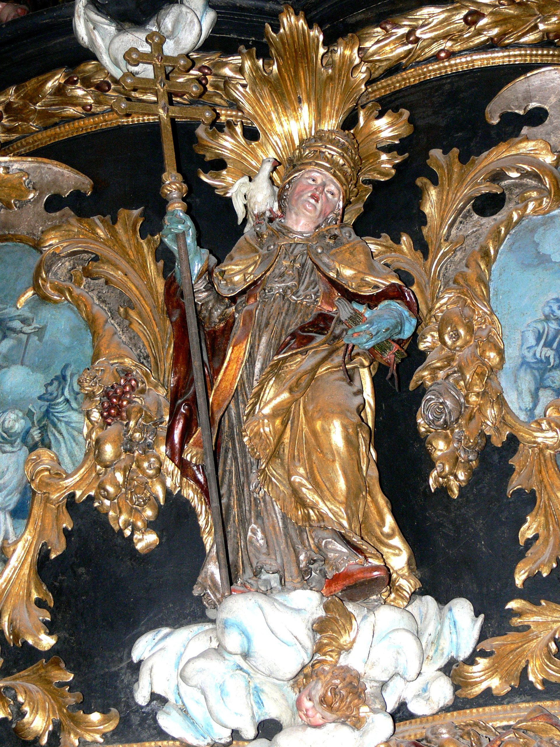 Sankt Wolfgang im Salzkammergut parish church ( Upper Austria ). Baroque pulpit ( 1706 ) by Meinrad Guggenbichler: Statue of Saint Gregory.